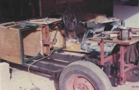 Burlington build, based on a Herald 1200. First bits get assembled onto chassis – 1200cc Herald on Burlington’s new ladder chassis. Frame at the back is where the petrol tank will go.